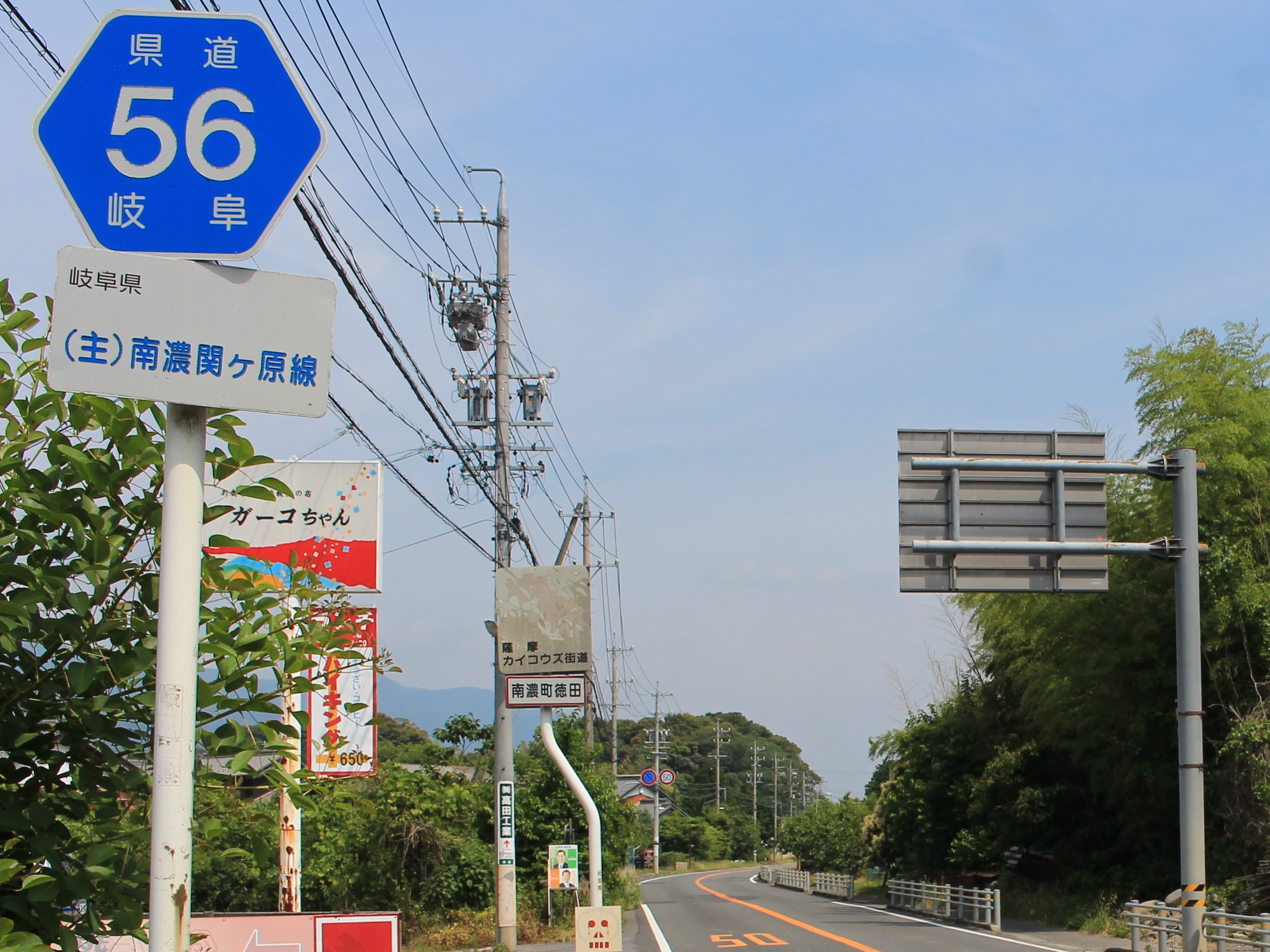 Gifu Prefectural Road Route 56 in Tokuda, Nannocho, Kaizu, Gifu prefecture, Japan.